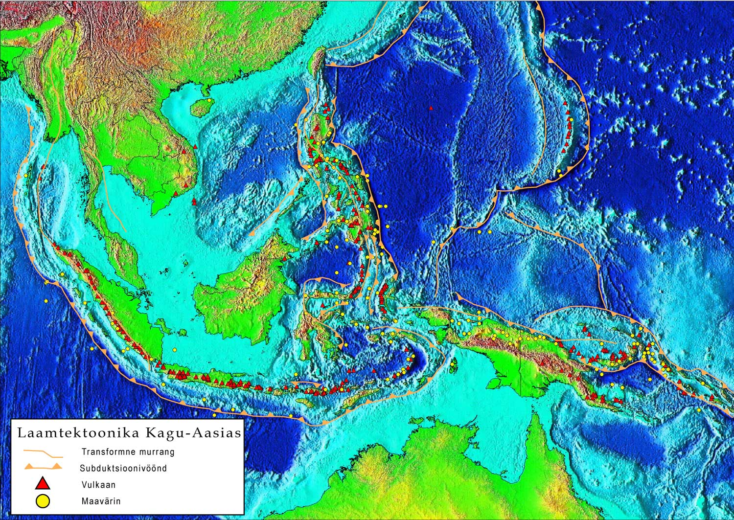 Plate tectonics map of Southeast Asia in Estonian